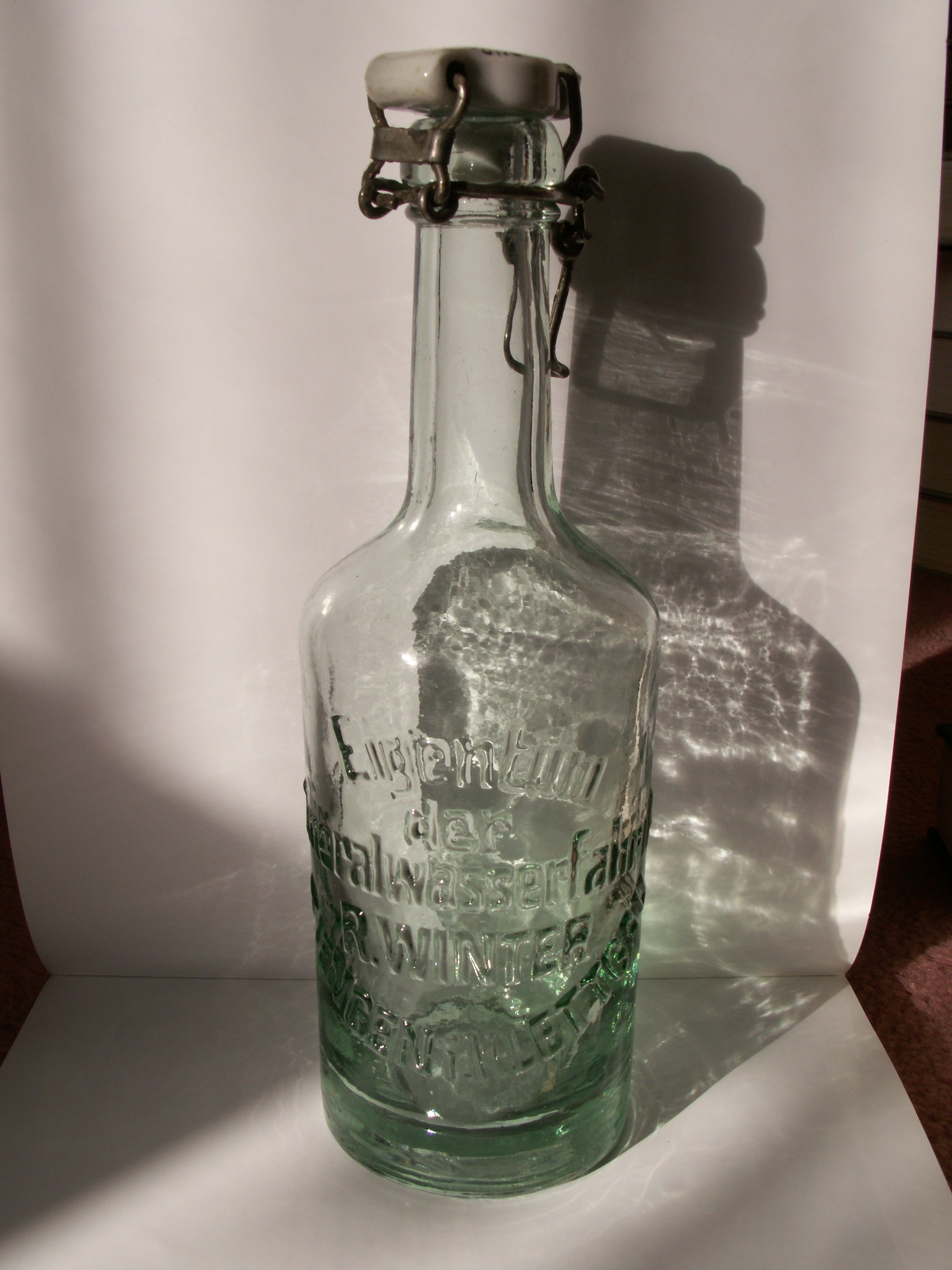 Bottle